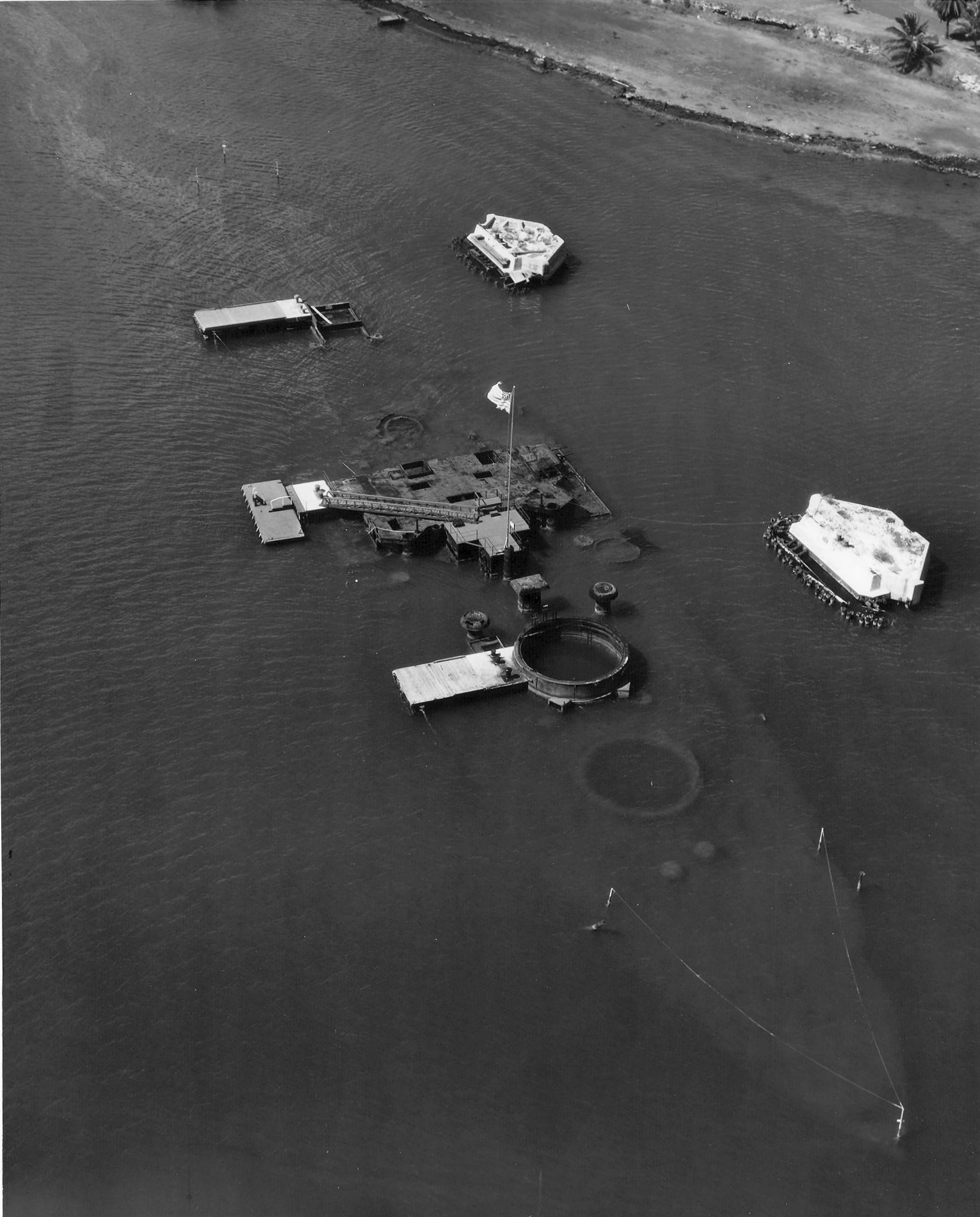 Aerial view of the hull of the U.S. Navy battleship USS Arizona (BB-39) taken during the 1950s prior to the construction of the USS Arizona Memorial.